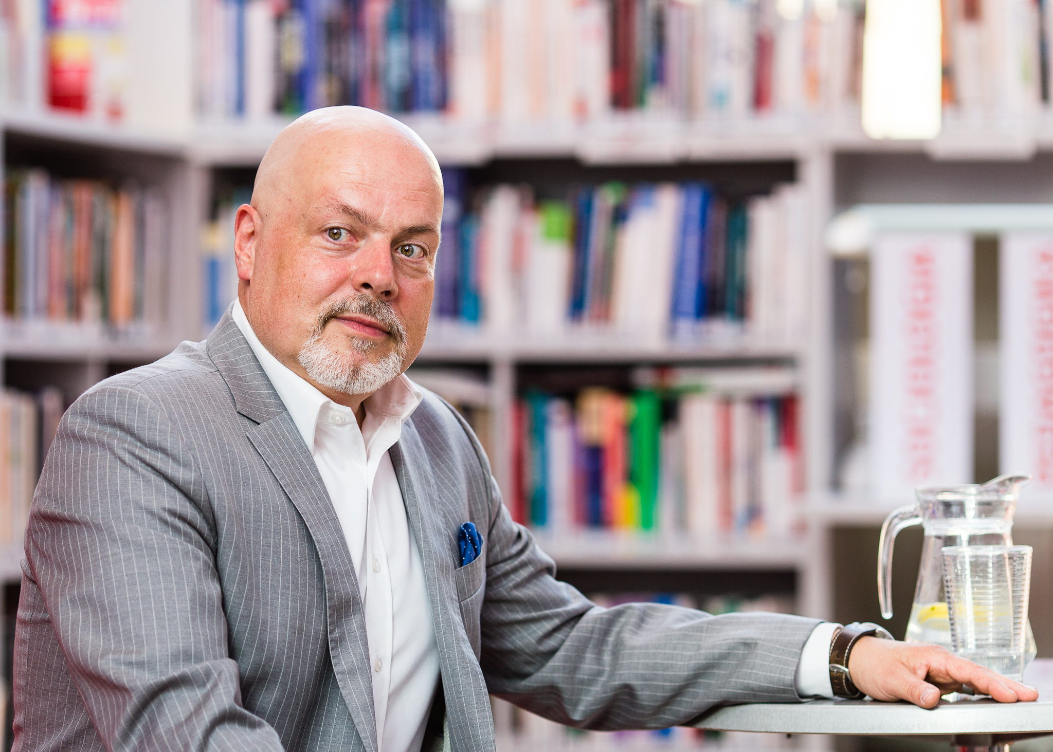 Marek Krajewski, author’s meeting, Mediateka, Wrocław, Poland